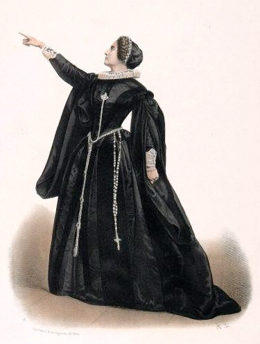 Italian actress Adelaide Ristori (1822-1906) as Mary Stuart in Maria Stuart by Friedrich Schiller (1759-1805).